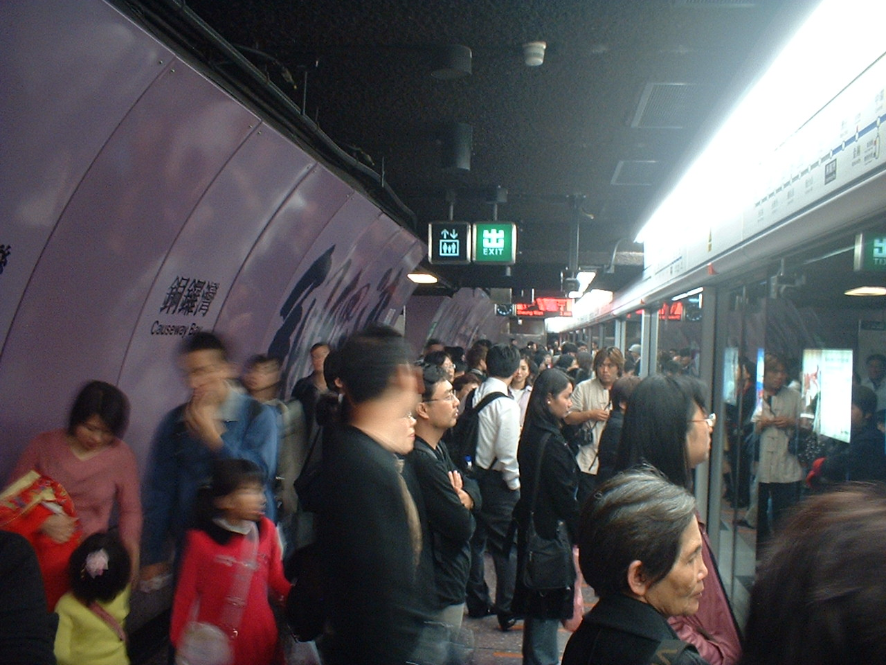 A crowded platform on Causeway Bay MTR Station on the Island Line, Causeway Bay, Hong Kong.